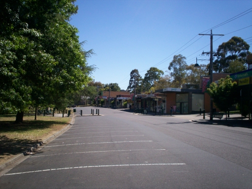 skinhat